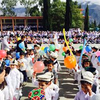 Public Schools and Colleges Jutial, Gilgit-Prep Wing